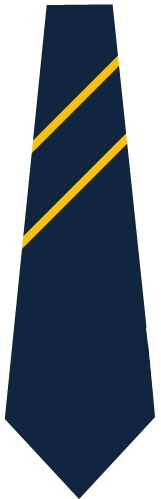 Blue Coat School Tie with 2 Stripes